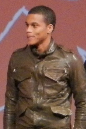 Chris Noth, Amanda Seyfried, Peter Sarsgaard etc.